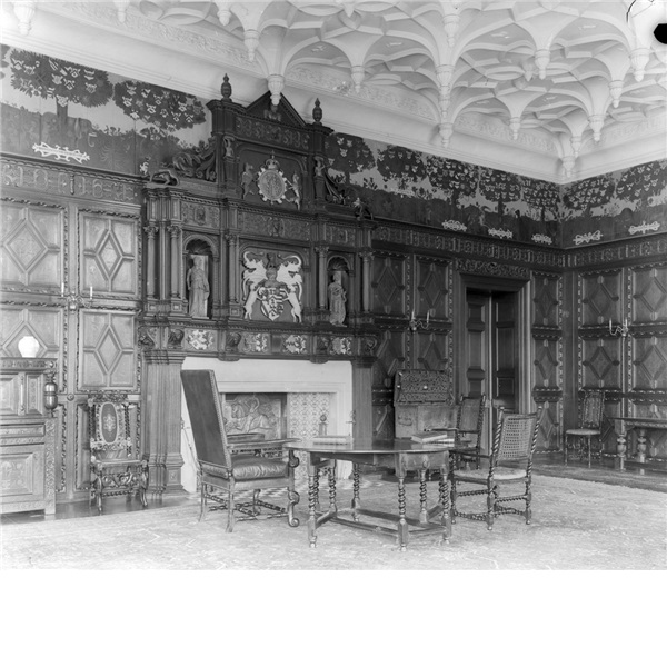 Interior of Gilling Castle (now preparatory school for Ampleforth College) at Gilling East, North Yorkshire, England. Published in Country Life magazine, vol XXIV, p.416, image no. 730586. Showing 16th century Elizabethan carved panelling and ceiling plasterwork.